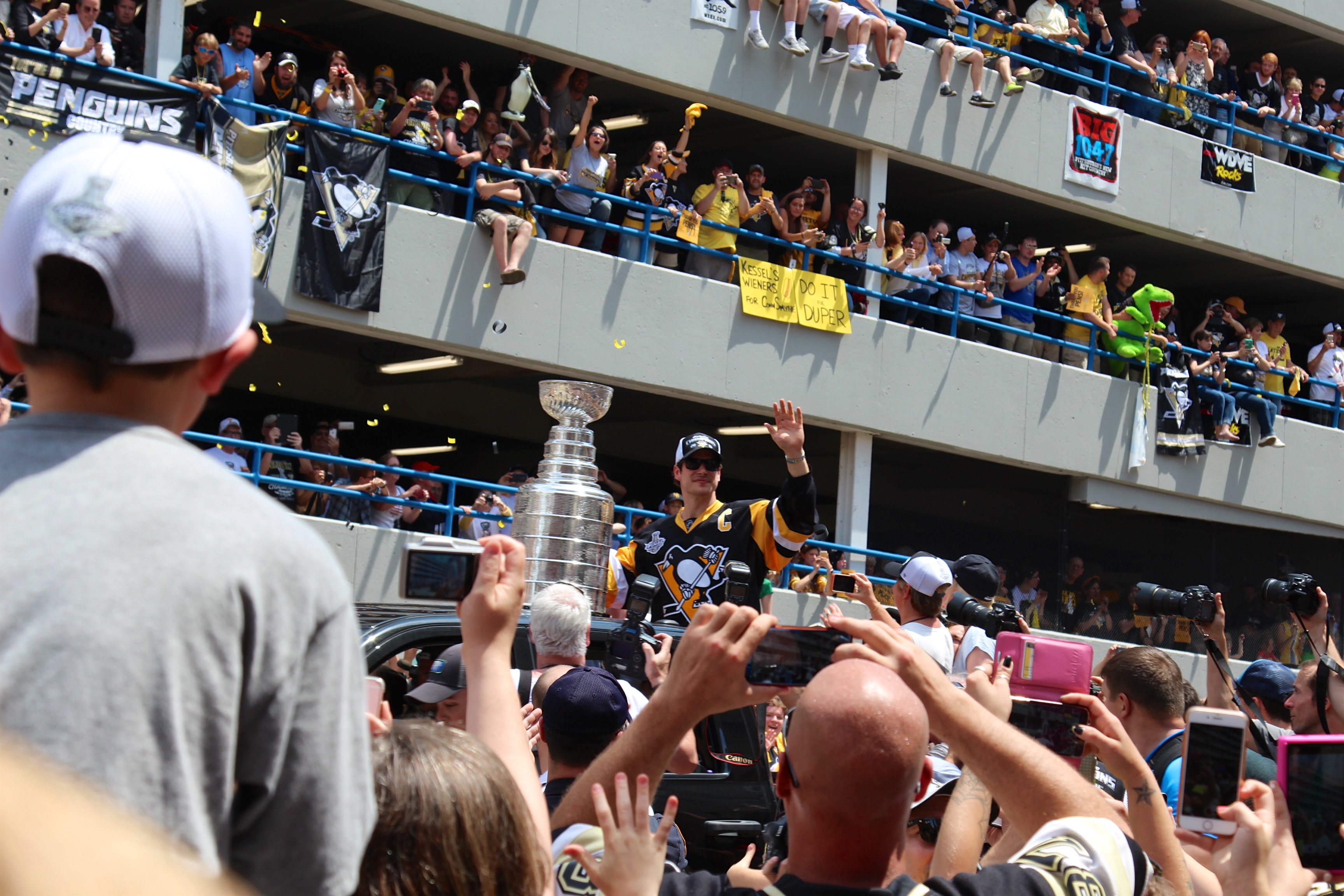 Penguins Victory Parade @ Pittsburgh, Pennsylvania